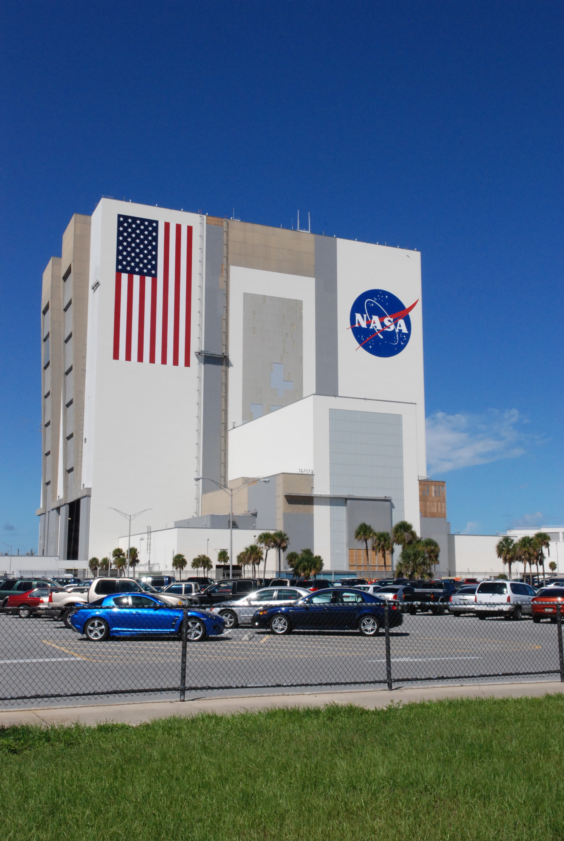 Picture of the Kennedy Space Center's Vehicle Assembly Building